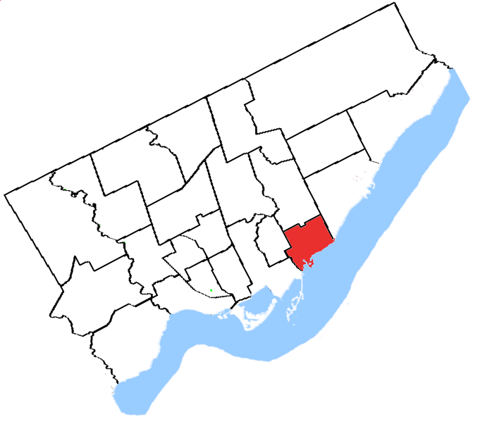 Map of the Beaches (electoral district) electoral district. Created by SimonP.